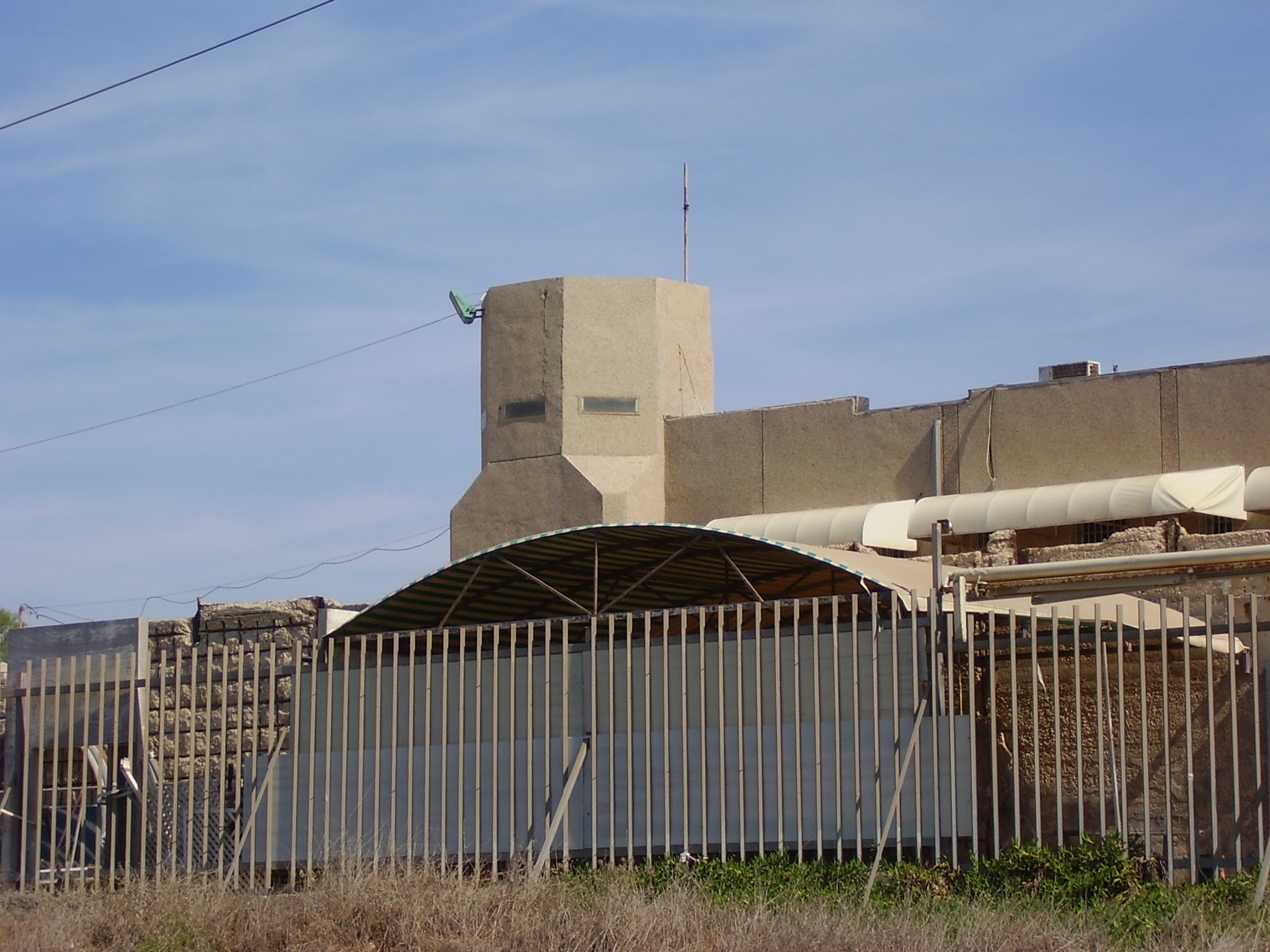 british (mandatory) coastguard station in sidna-ali, israel